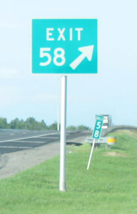 Interstate 4 west at exit 58, taken July 2, 2006 by SPUI.